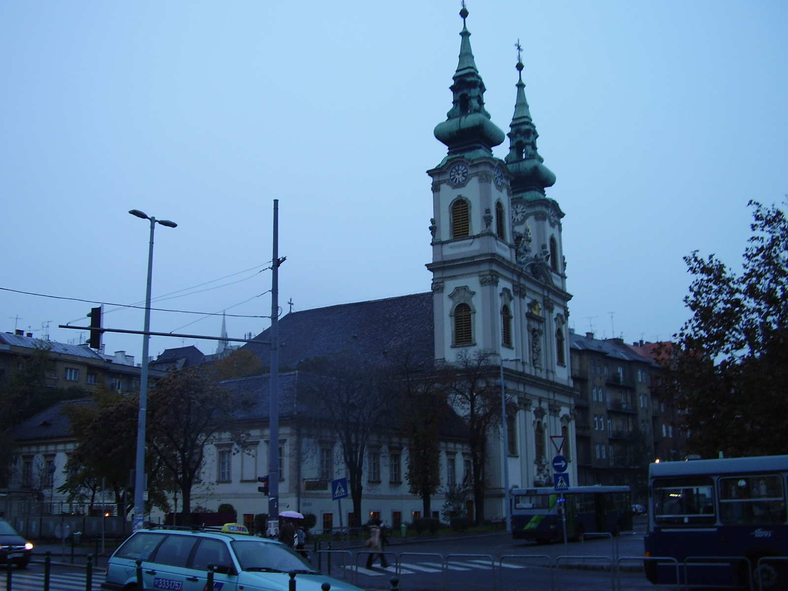 The church of St Anne (built in 1762), Batthyány tér, Budapest